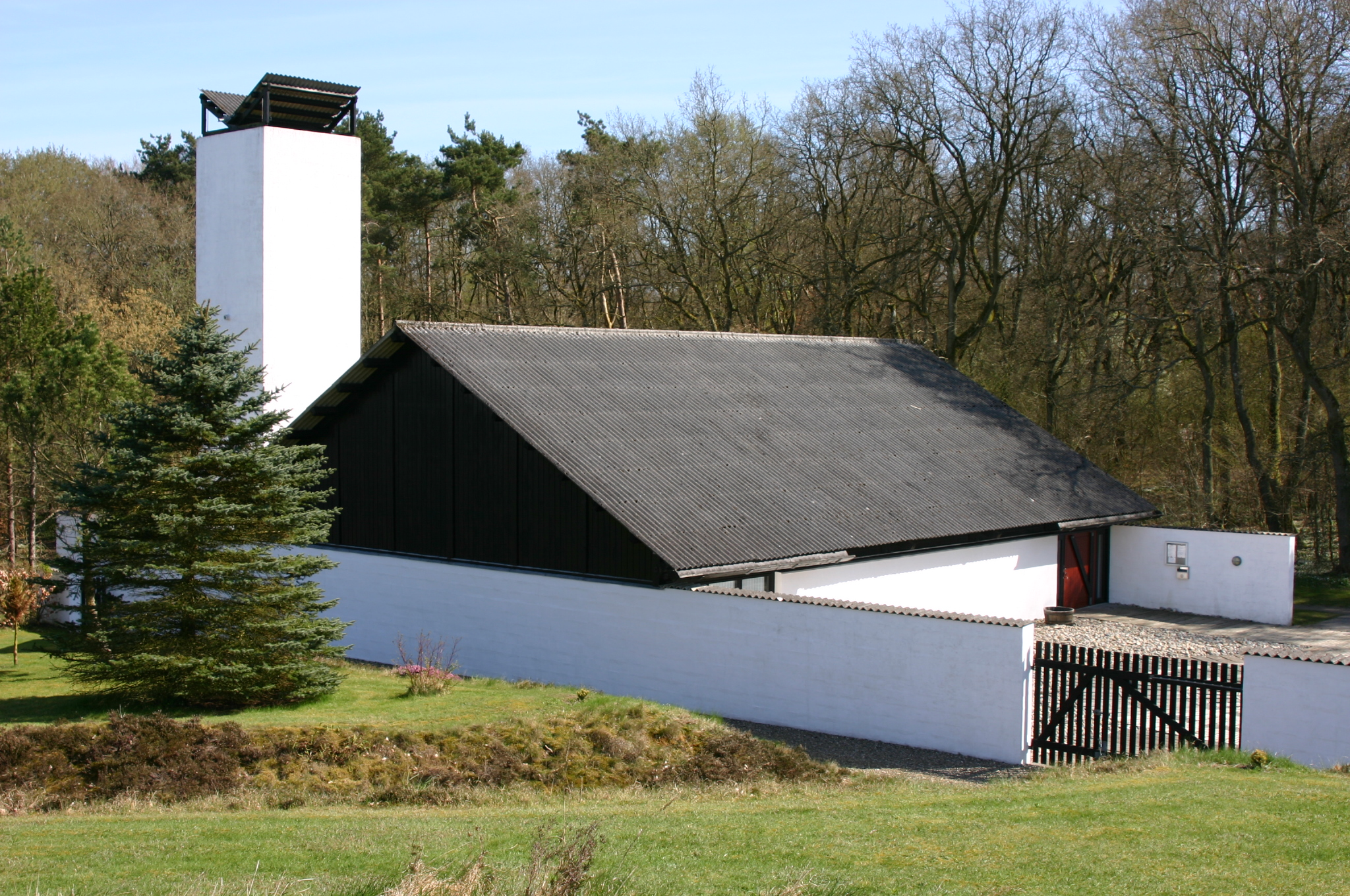 Hald Ege Church, Viborg, Denmark (Lutheran-Evangelical, Danish National Church) Hald Ege Kirke, Hald Ege ved Viborg